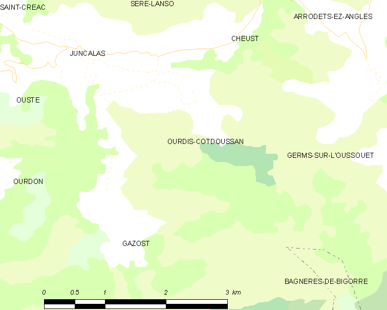 Map of French municipality